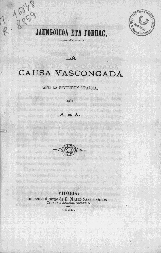 Jaungoicoa eta foruac : la causa vascongada ante la revolución española